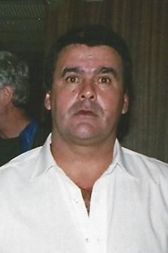 Jose Luis Brown